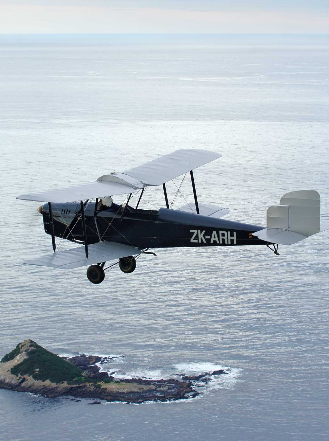 A Spartan Three Seater II aircraft in New Zealand, registration ZK-ARH, formerly registered as G-ABYN (in UK) and EI-ABU (in Ireland). Aircraft built 1932 in United Kingdom by Spartan Aircraft Ltd